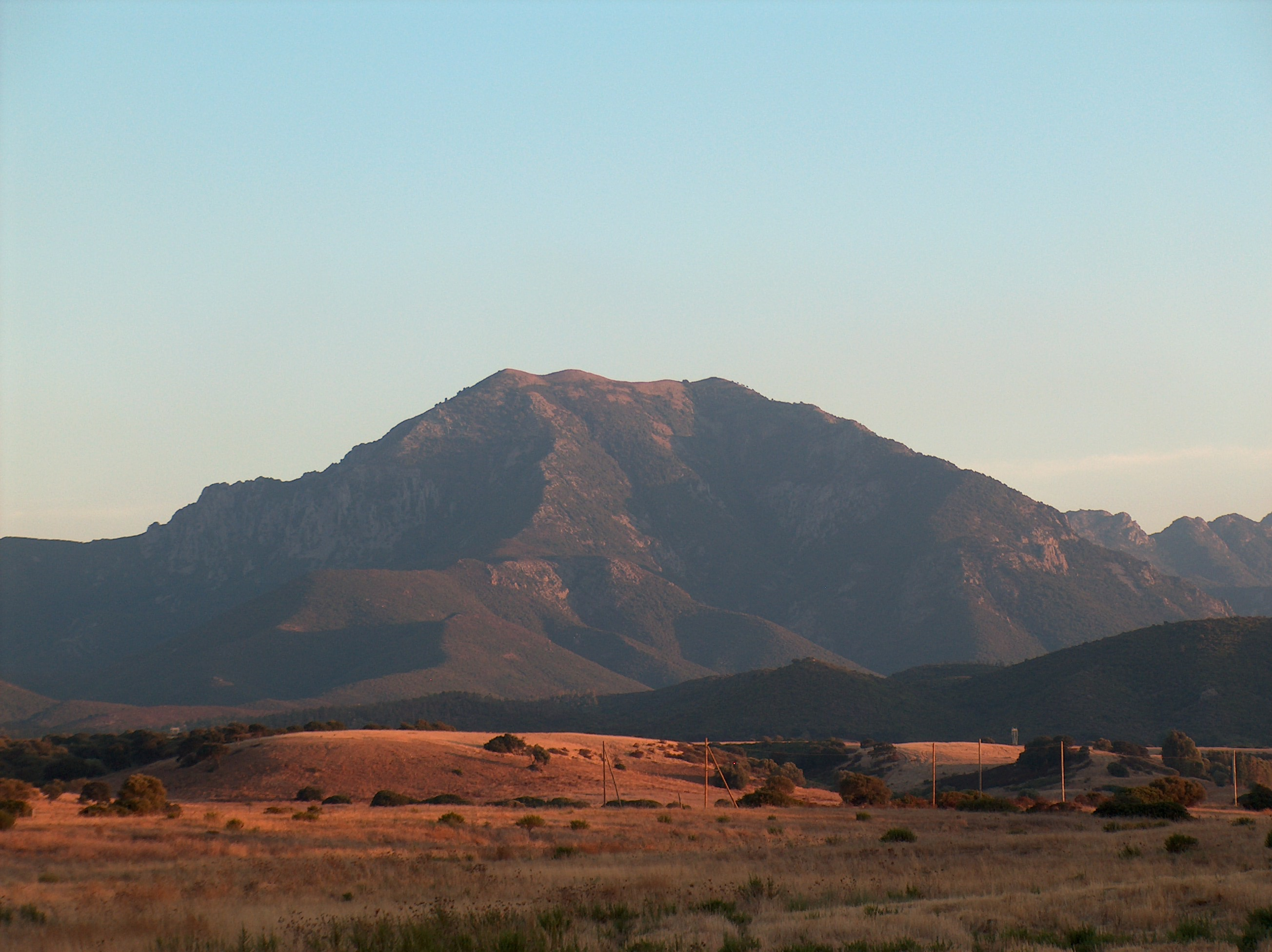 View of northern side of Mount Arcosu (Sardinia, Italy)